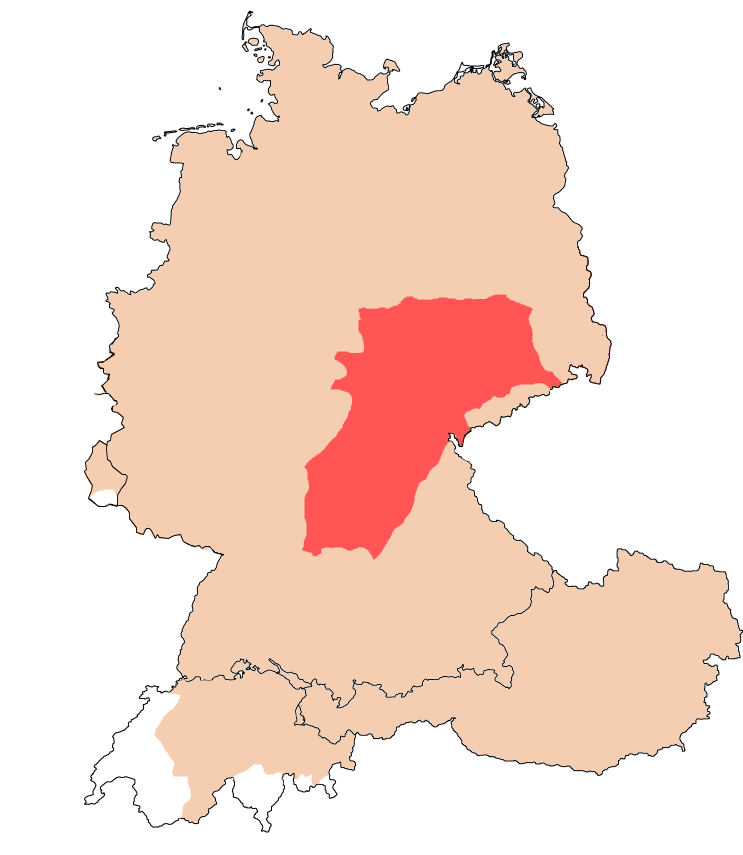 Map showing the dialect area that formed the basis for the German Standard language References for this description (or part of this) or for the depiction in the file are not provided. Relevant discussion may be found on the talk page. .